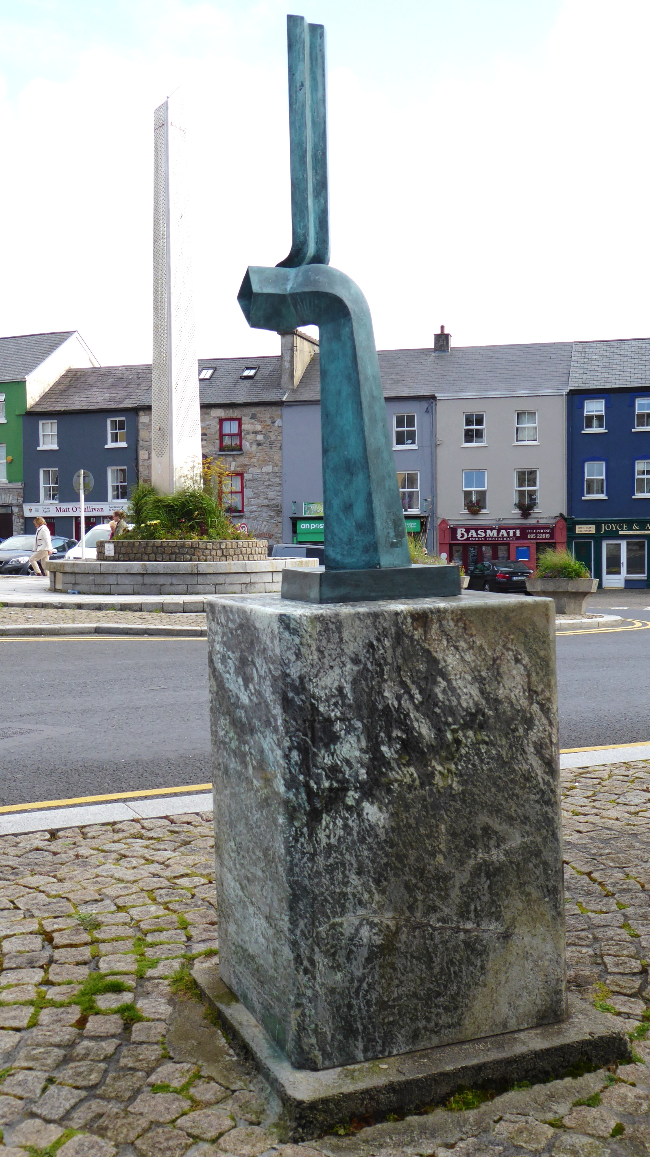 John Riley street sculpture, Clifden, Ireland